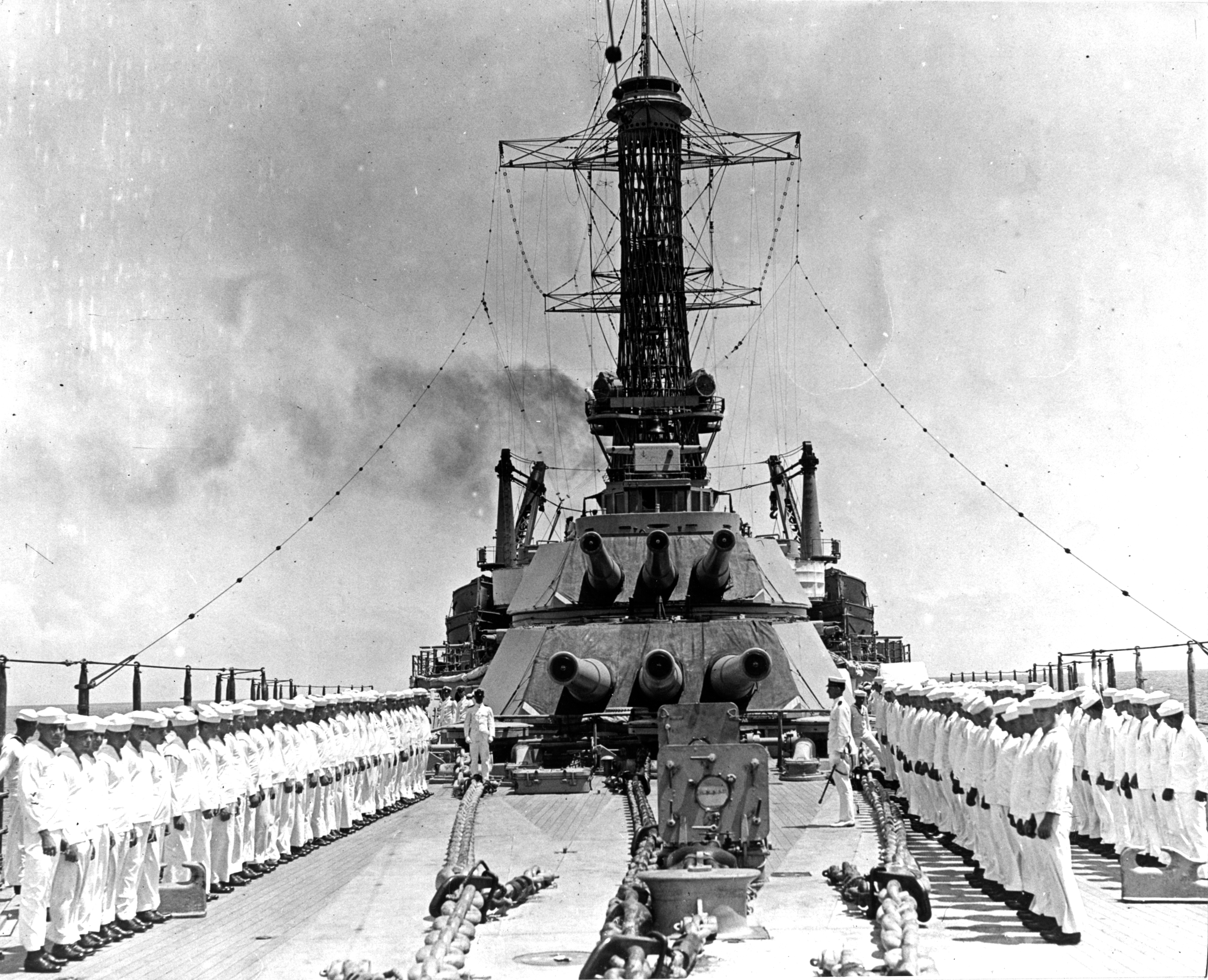 Inspection on the battleship's forecastle, circa 1920. Note her forward triple 14/40 gun turrets and cage foremast. U.S. Naval History and Heritage Command Photograph.